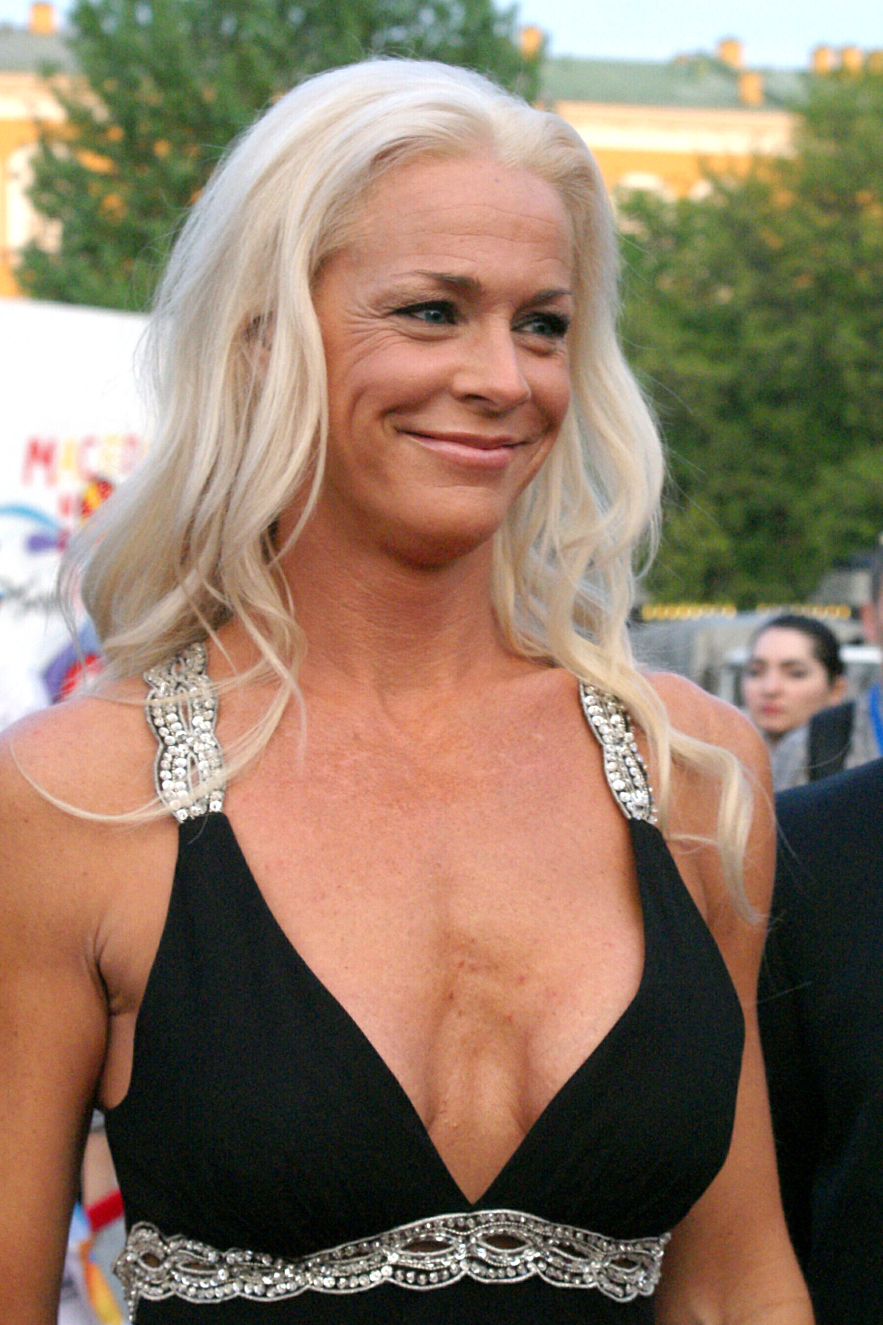 Malena Ernman in Moscow, 2009